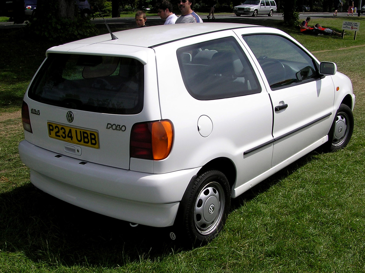 A white VW Polo III (UK-Version)